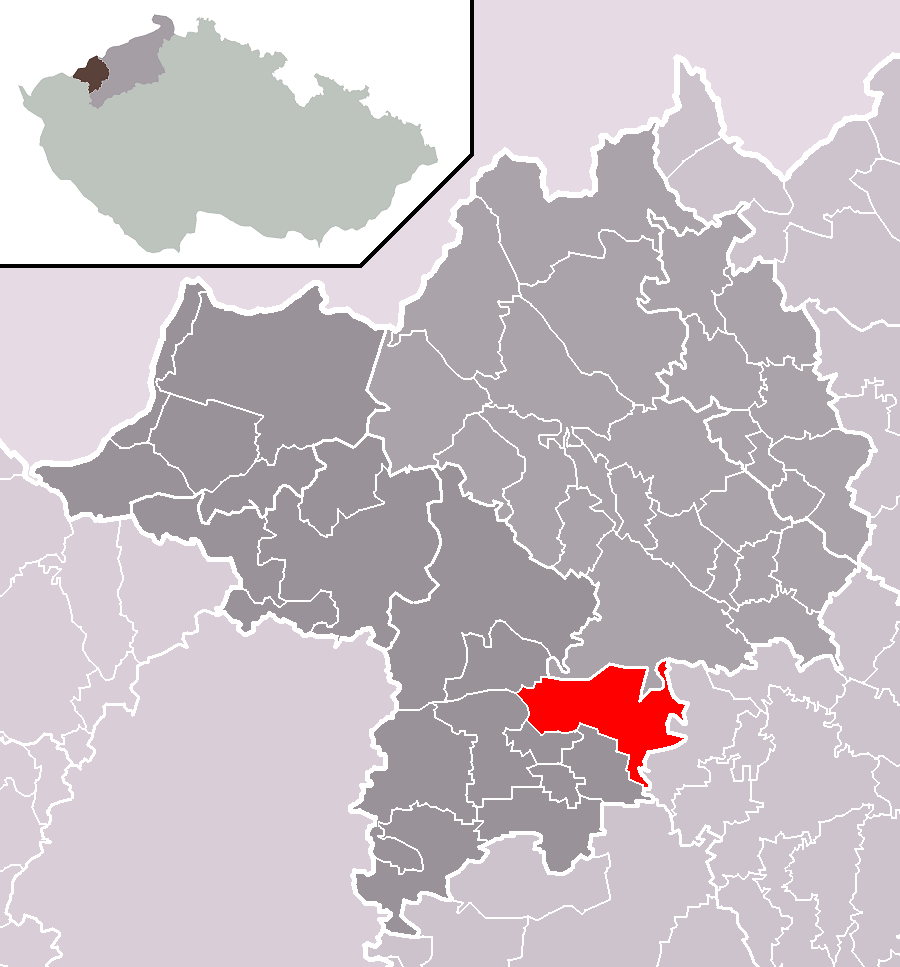 Location of Chbany municipality within Chomutov District and administrative area of Kadaň as a Municipality with Extended Competence.